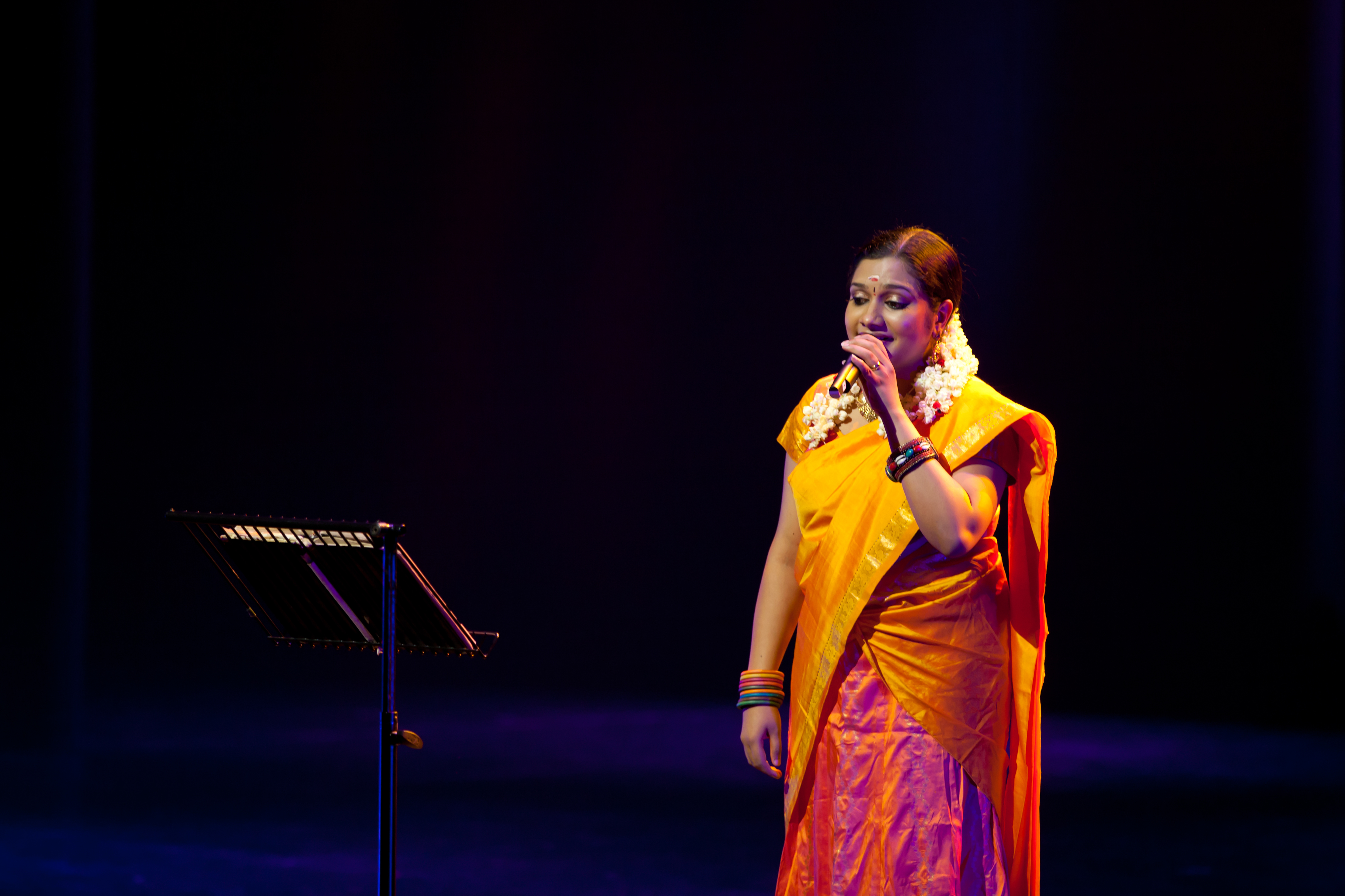 Rimi Tomy.